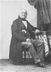 The Portrait of composer Aloys Schmitt (1788-1866)